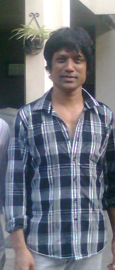 The actor S. J. Surya